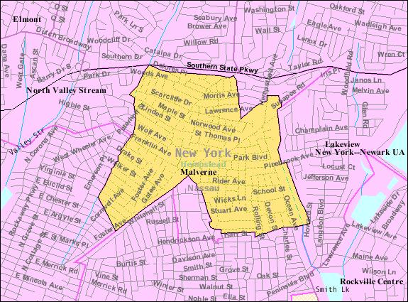 U.S. Census 2000 reference map for Malverne, New York